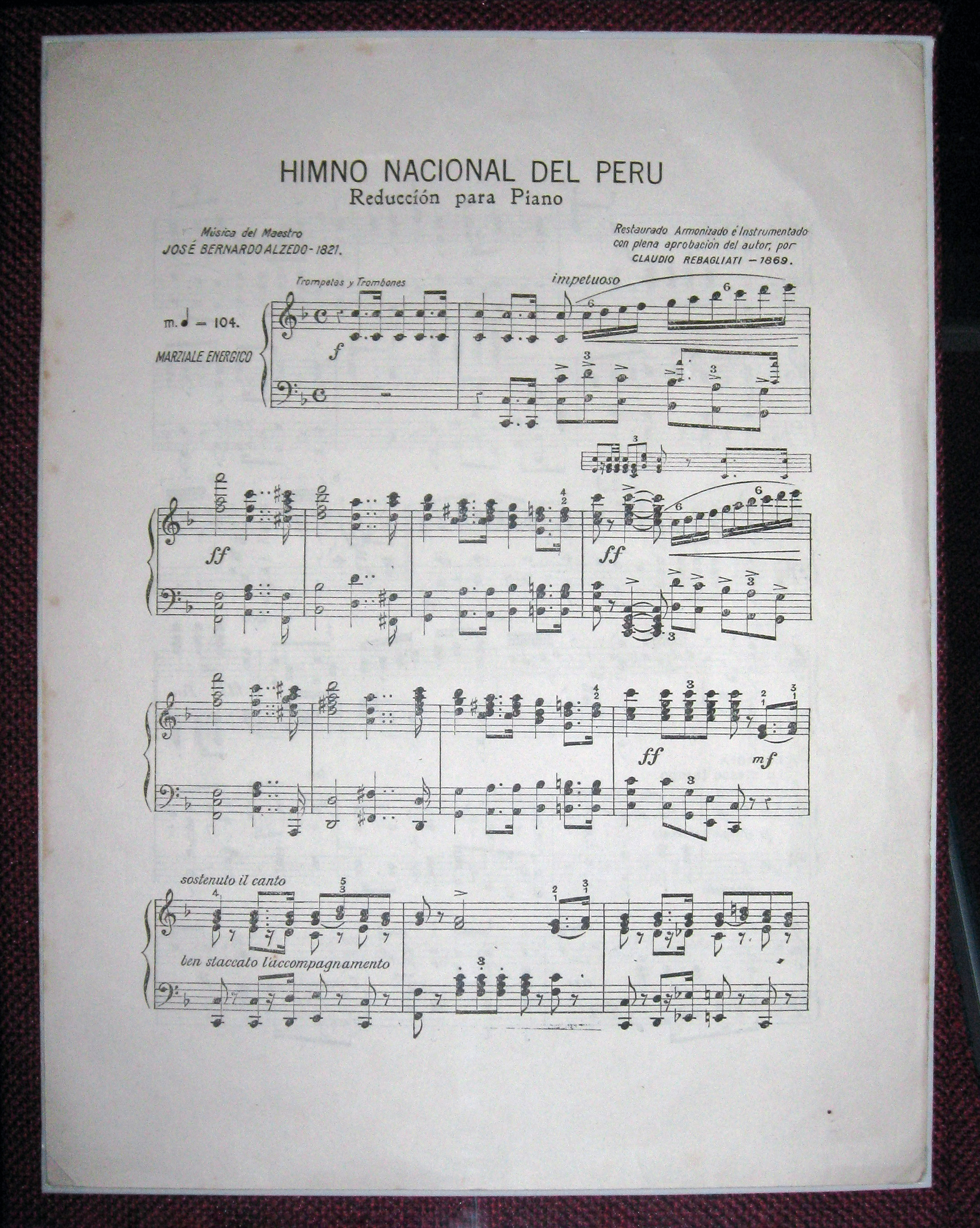 National Hymn of Perú since 1822